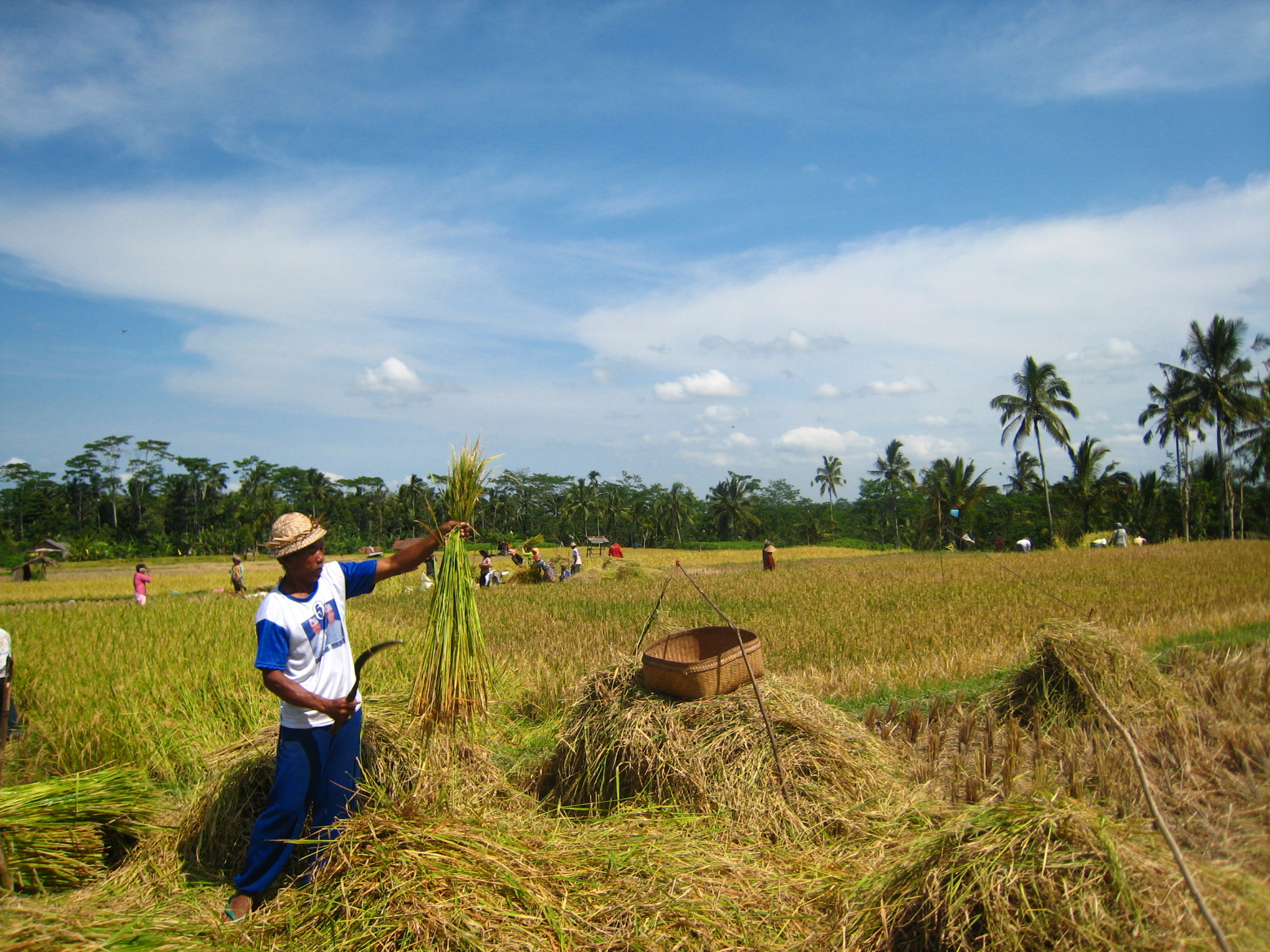 Rice harvest in Bali